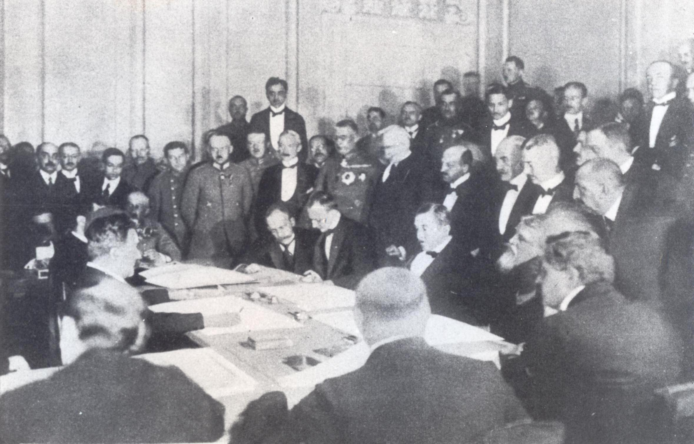 Treaty of Brest-Litovsk, 9 February 1918